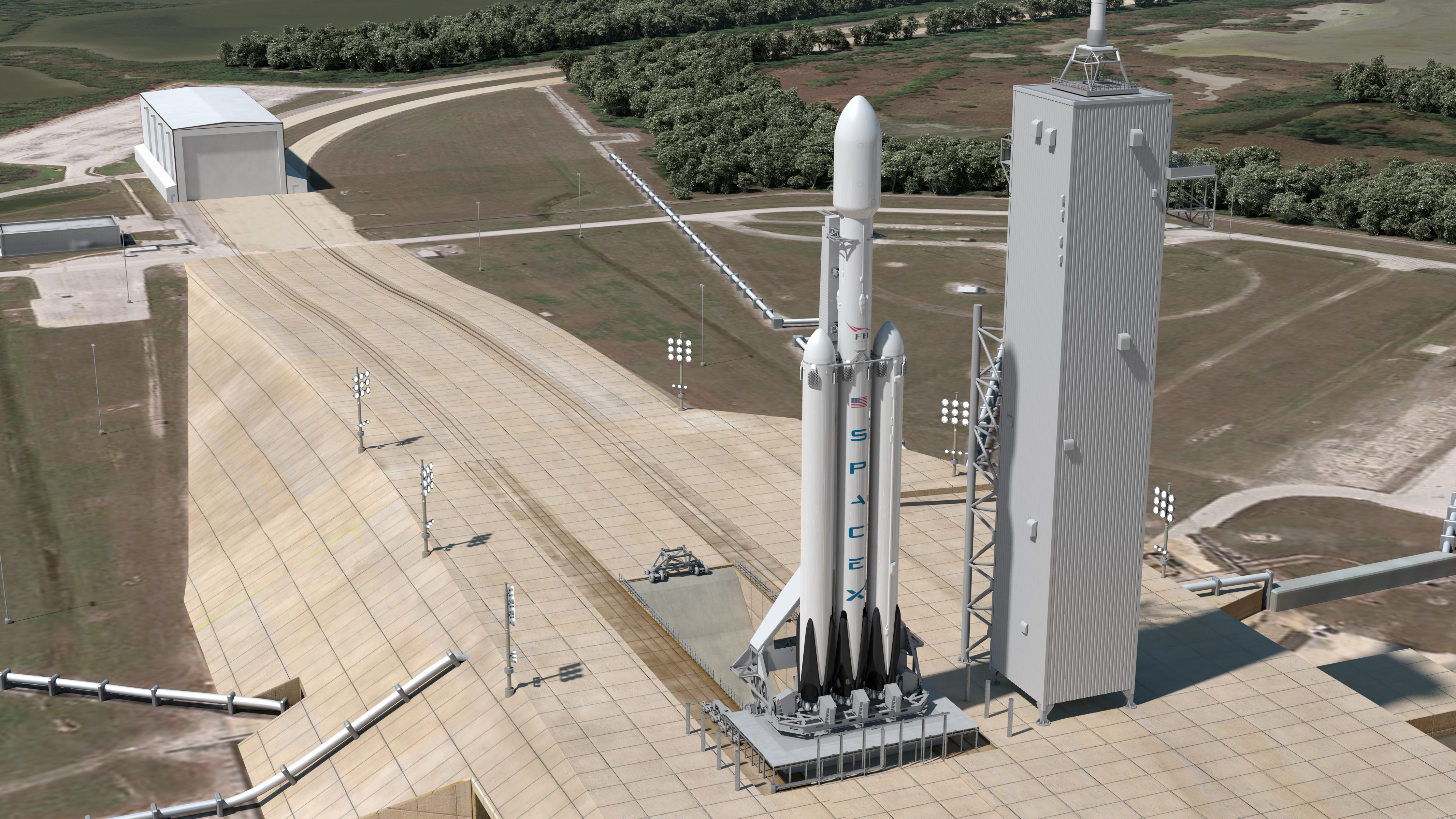 Pad 39A at Kennedy Space Center will be future home to NASA Commercial Crew Program launches and Falcon Heavy missions.